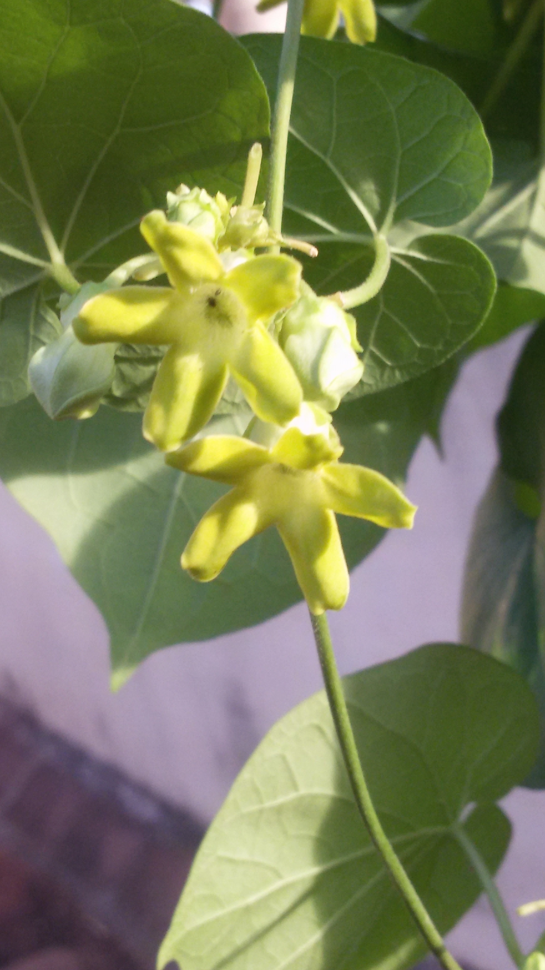 telosma cordata